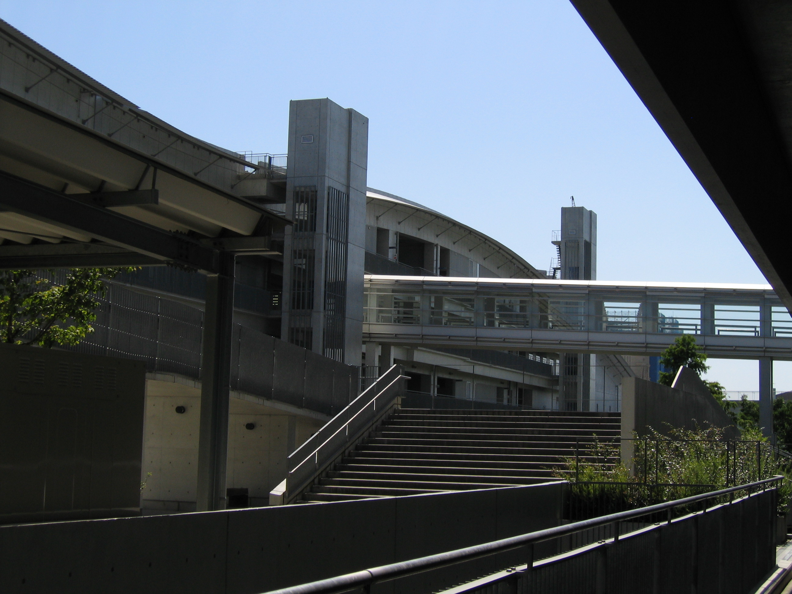 View of the central courtyard of the Shizuoka University of Art and Culture in Hamamatsu, Japan.